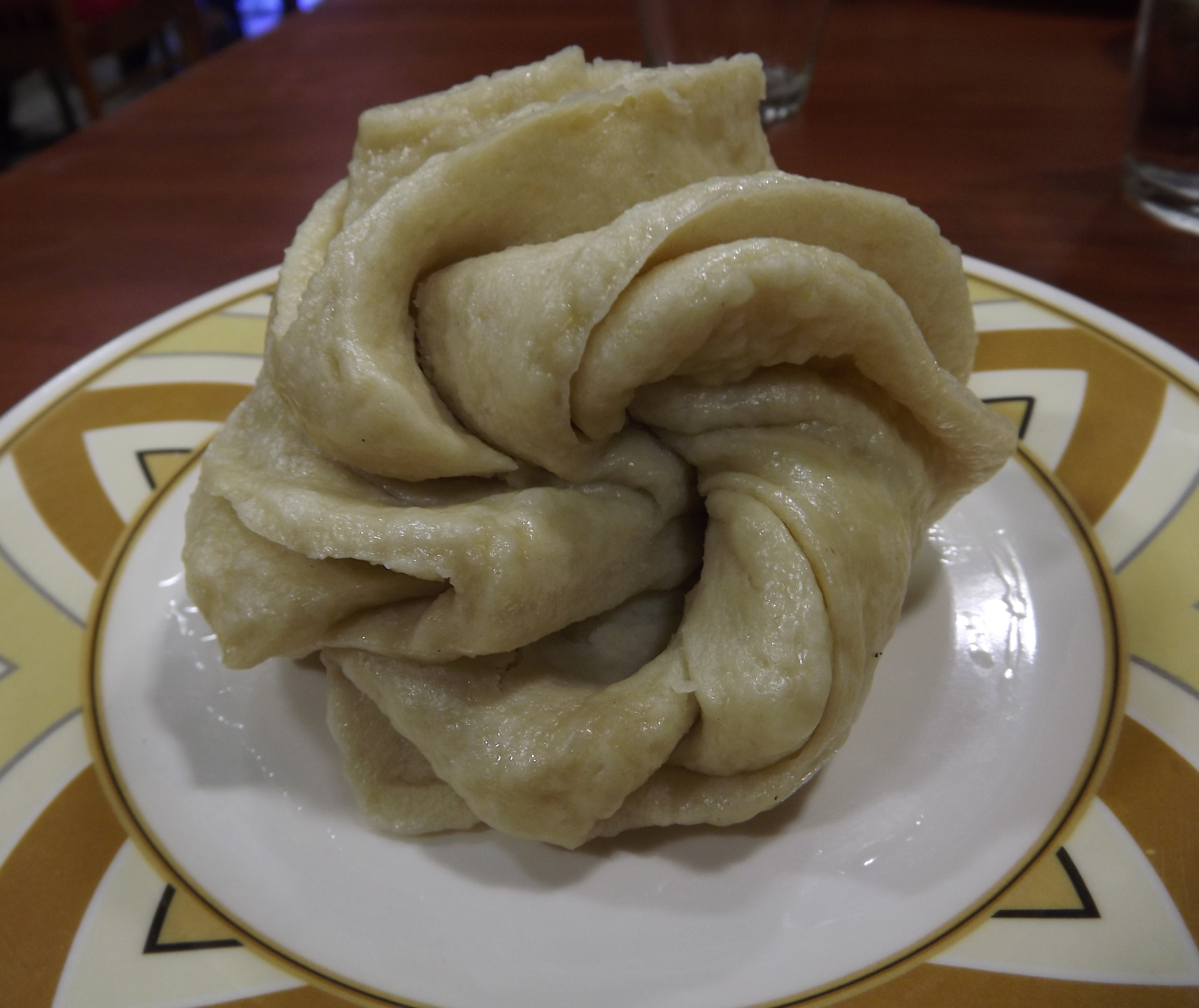 Tingmo or Ting Momo is a Tibetan steamed bread without any stuffing.